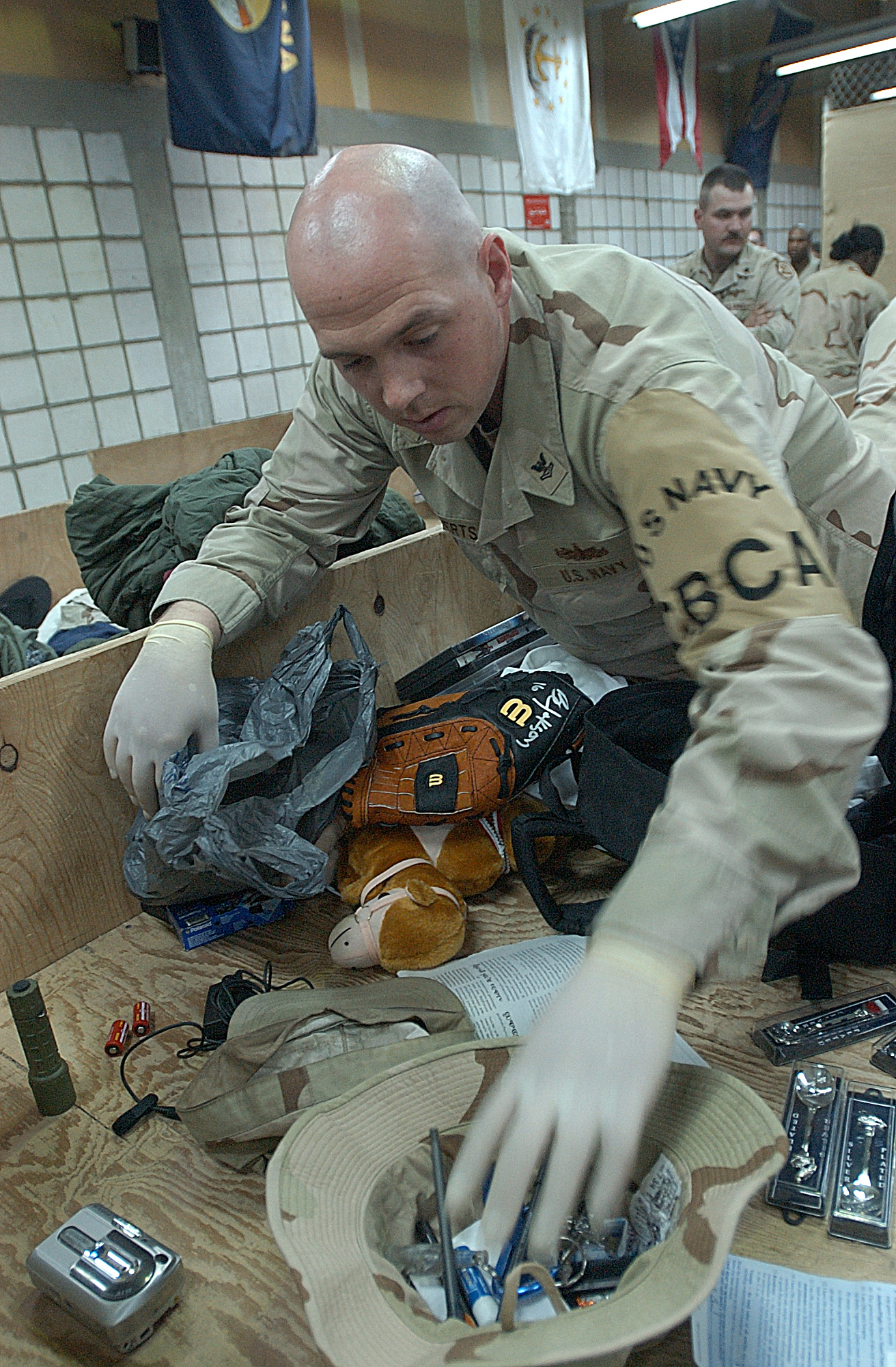 Camp Doha, Kuwait (Mar. 1, 2005) - Fire Controlman 2nd Class Jeffrey Oberts of San Diego, Calif., performs a customs inspection on a U.S. Army Soldier's duffle bag at Camp Doha, Kuwait. Petty Officer Oberts is a recalled Navy reservist assigned to Naval Expeditionary Logistics Support Force (NAVELSF), Forward Oscar, Bravo Company. Forward Oscar recently relieved the U.S. Air Force's 887th Expeditionary Security Forces Squadron. NAVELSF is performing the customs mission for the U.S. Army throughout Kuwait and Iraq. U.S. Navy photo by Chief Journalist Kevin Elliott (RELEASED)